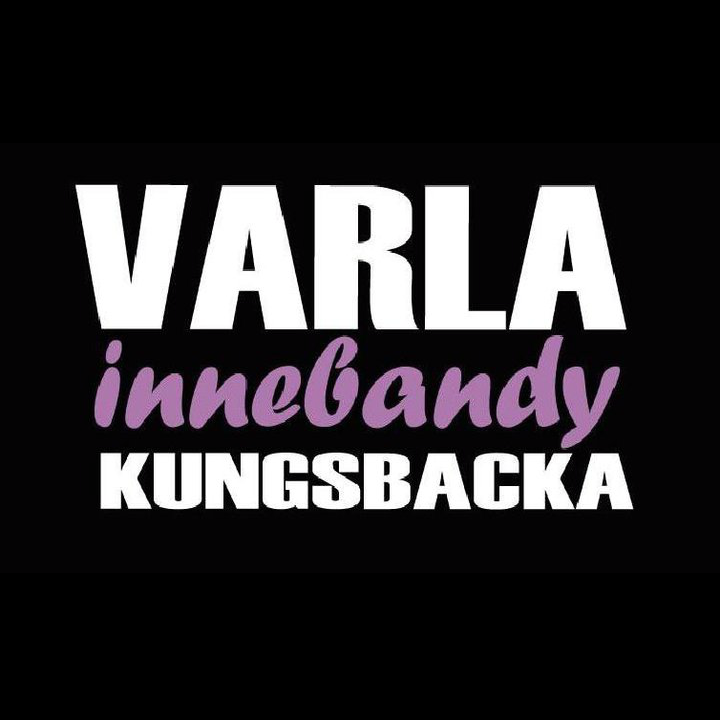 Varla IBK